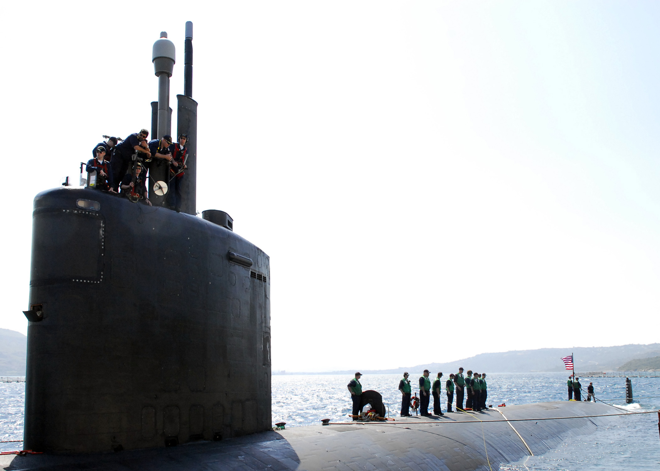 SOUDA BAY, Crete, Greece (May 22, 2007) - Los Angeles-class attack submarine USS San Juan (SSN 751) arrives for a routine port visit. San Juan departed her homeport of Groton, Conn., earlier this month for deployment in support of maritime operations.